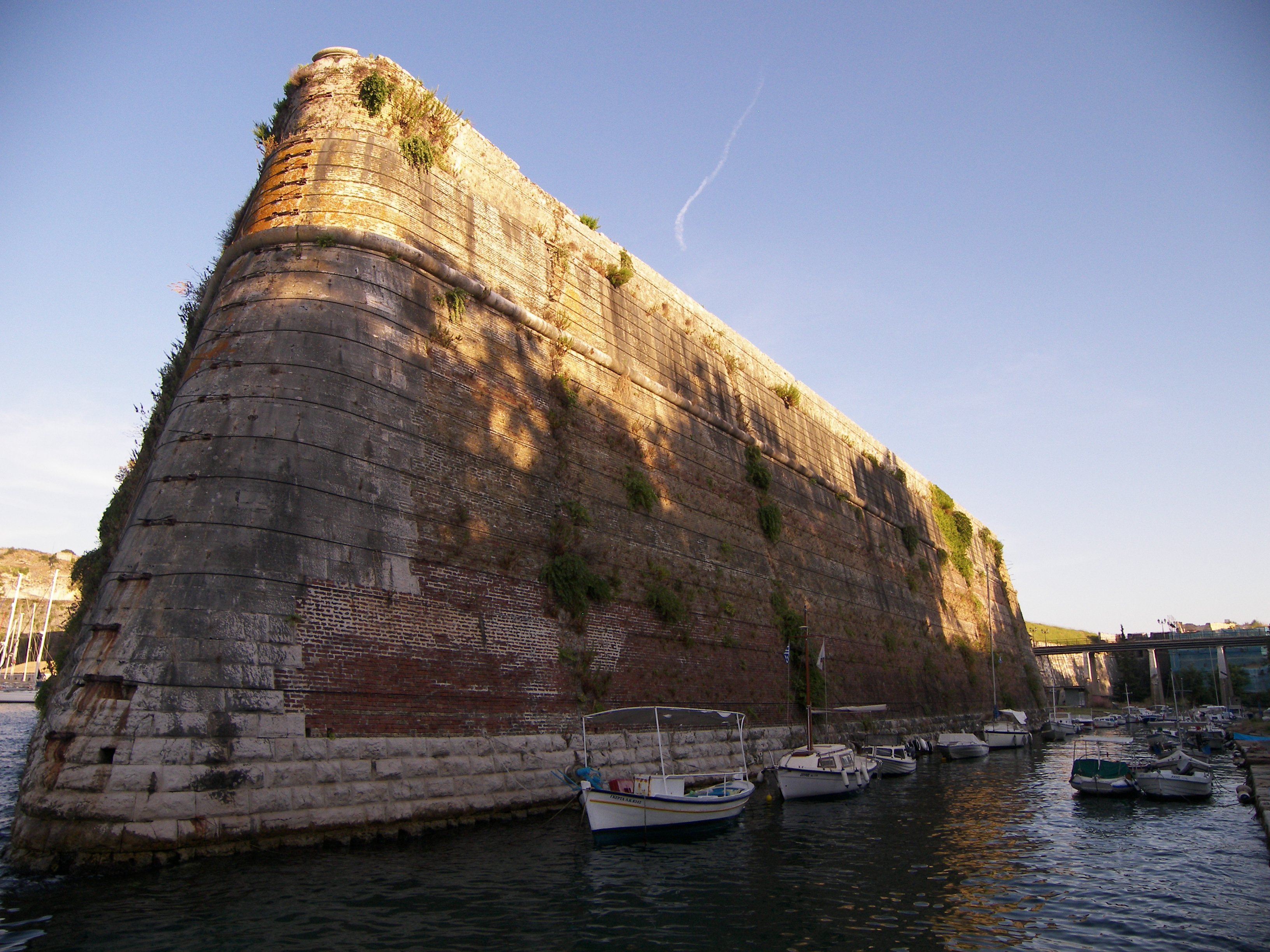 Filename